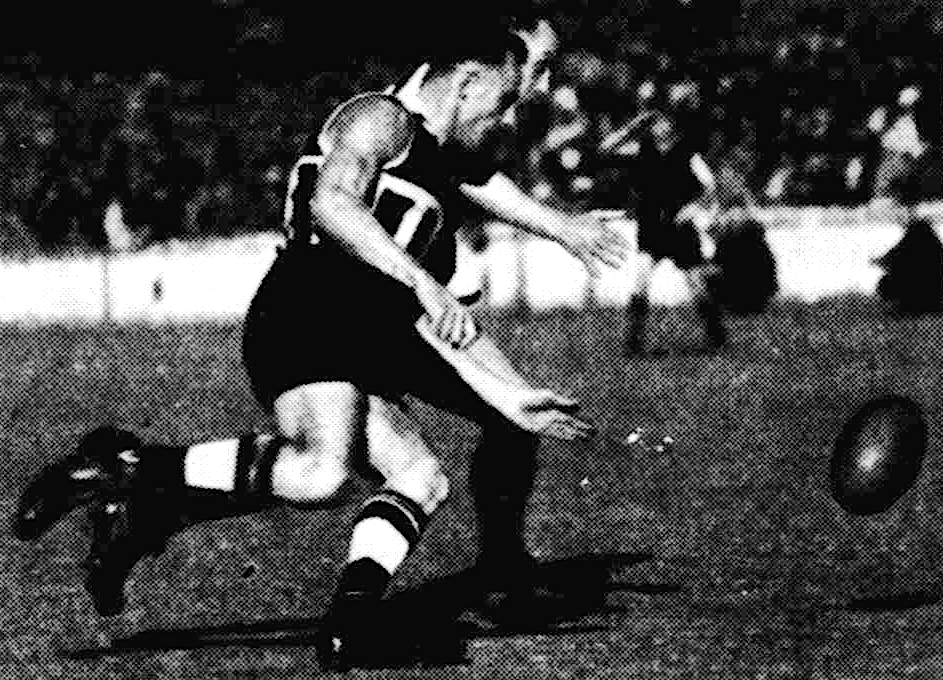 Ken Obst (front) tussling with Norwood player Henry Batt (behind) during the 1937 SANFL season.